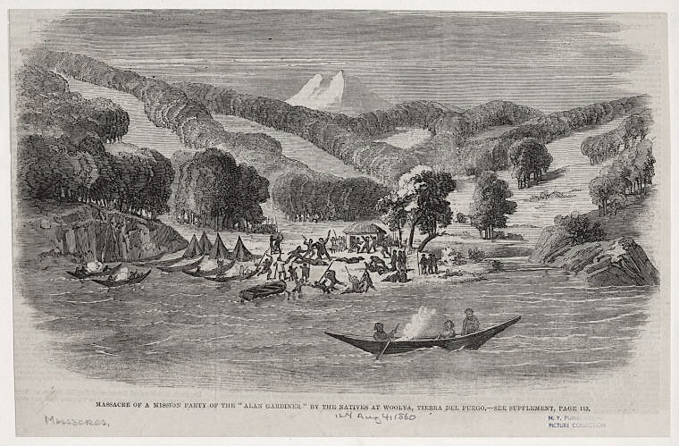 Massacre of members of the Allen Gardiner at the hands of natives of Wulaia